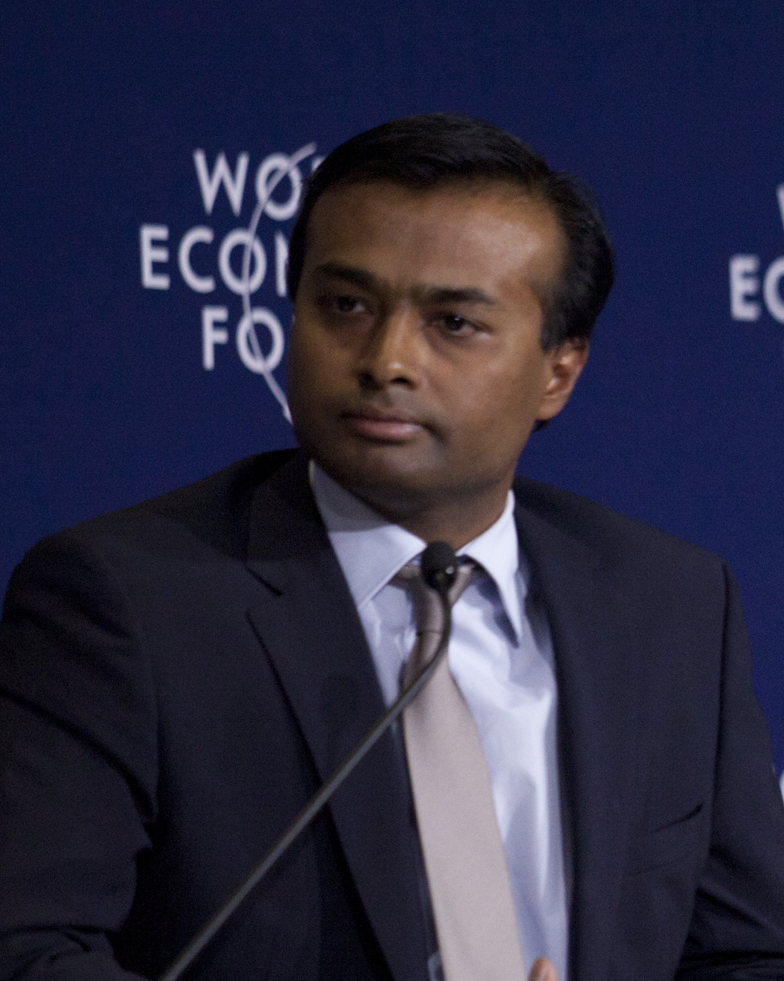 ADDIS ABABA/ETHIOPIA, 09-11 MAY 2012 - Euvin Naidoo, Co-President, South African Chamber of Commerce in America (SACCA), South Africa captured during Africa's Rising Leaders at the World Economic Forum on Africa held in Addis Ababa, Ethiopia, 9-11 May, 2012.